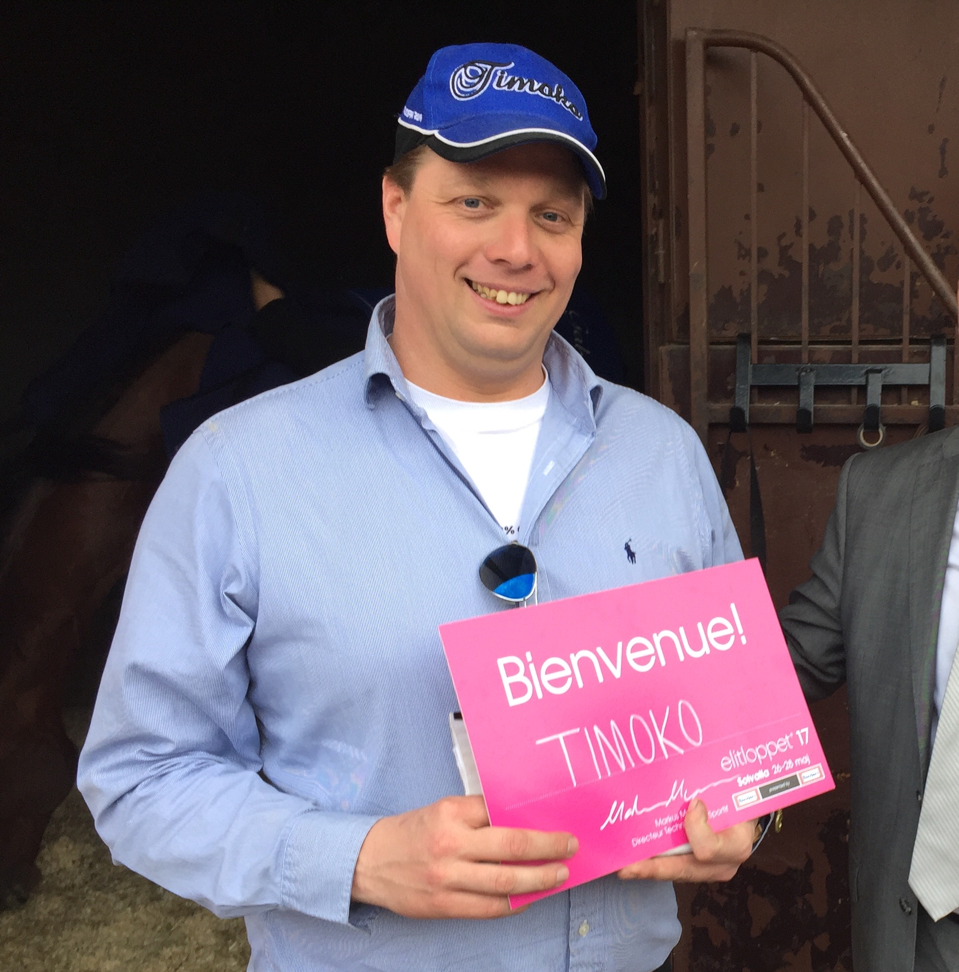 Richard Westerink 2017-03-12.